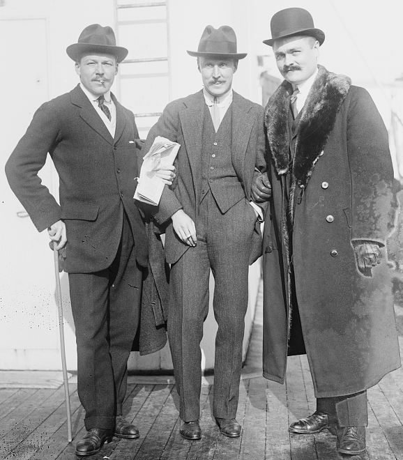 Photograph shows from left, Elliott Cowdin, Norman Prince, and William Thaw II who were American aviators that served in the French Army. (Source: Flickr Commons project, 2013)